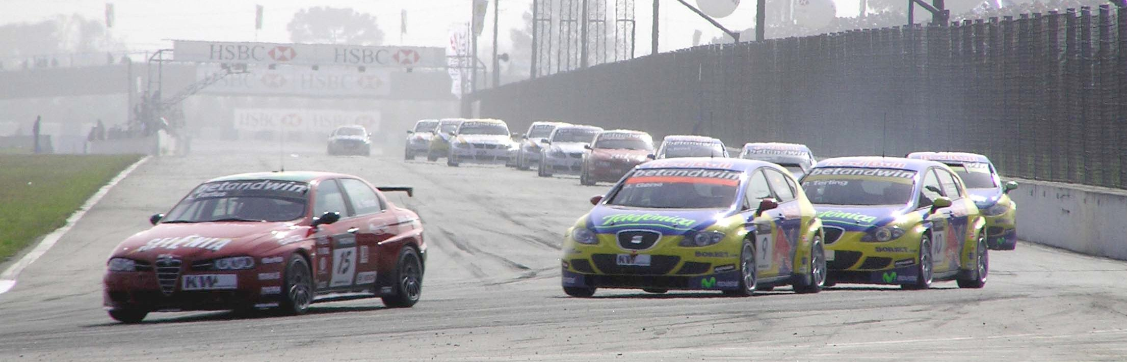 World Touring Car Championship 2006 Race 9 Curitiba#15 Augusto Farfus Jr., #9 Jordi Gené, #10 Peter Terting